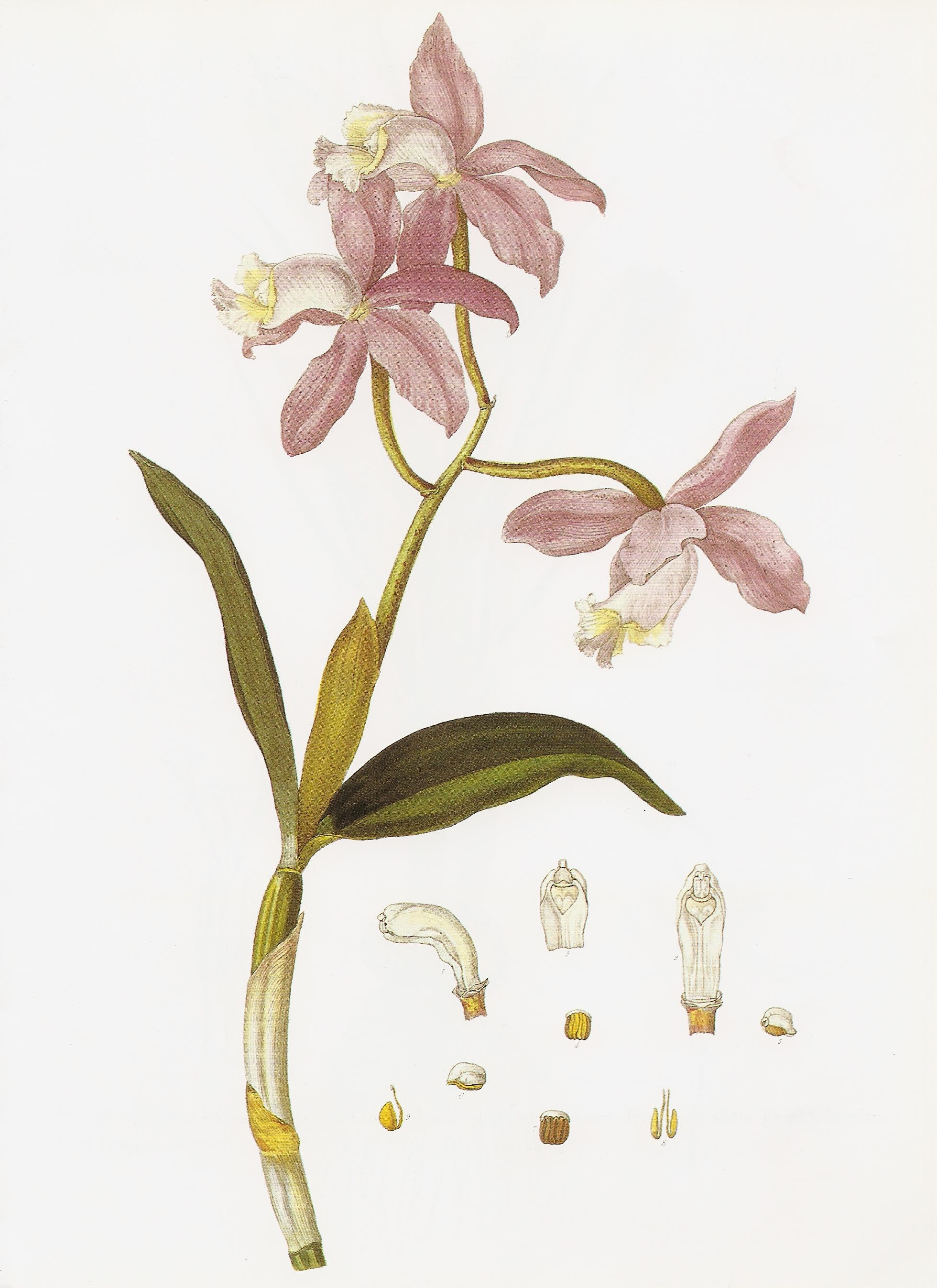 Cattleya loddigesii, a hand-coloured engraving after a drawing by John Lindley, from his Collectanea botanica (1821). Both the genus and the species were named by Lindley.